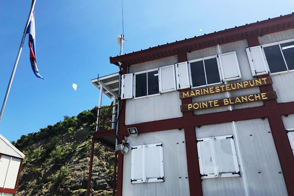 Stacked containers as housing on the temporary naval support station of the Royal Dutch Marines